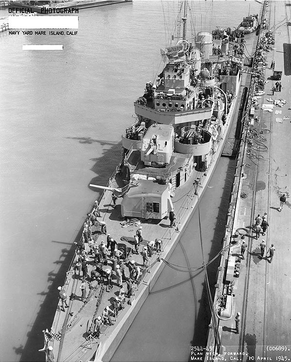 The U.S. Navy destroyer USS Wadleigh (DD-689) at the Mare Island Naval Shipyard, California (USA), on 10 April 1945.